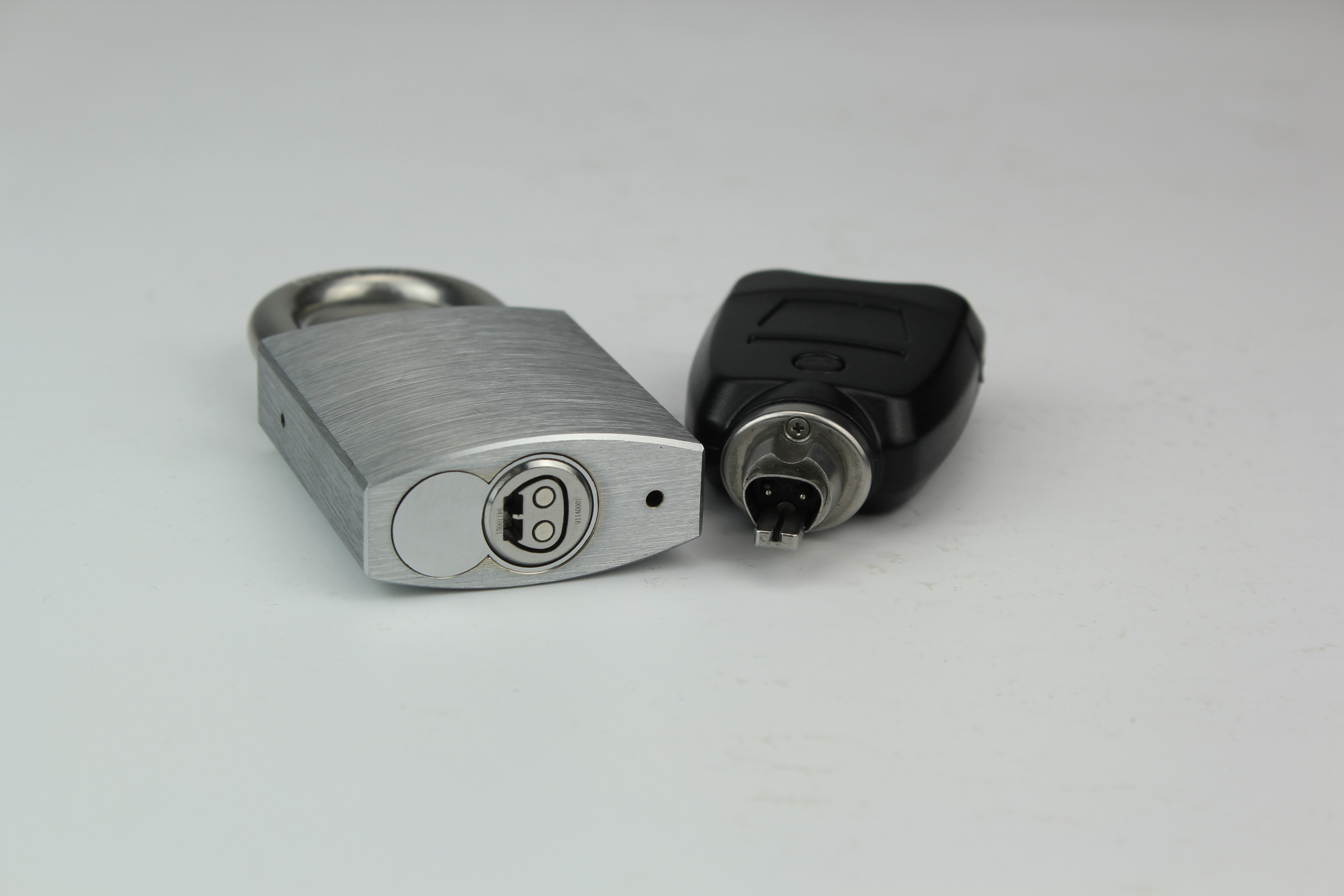 access control locks for gates